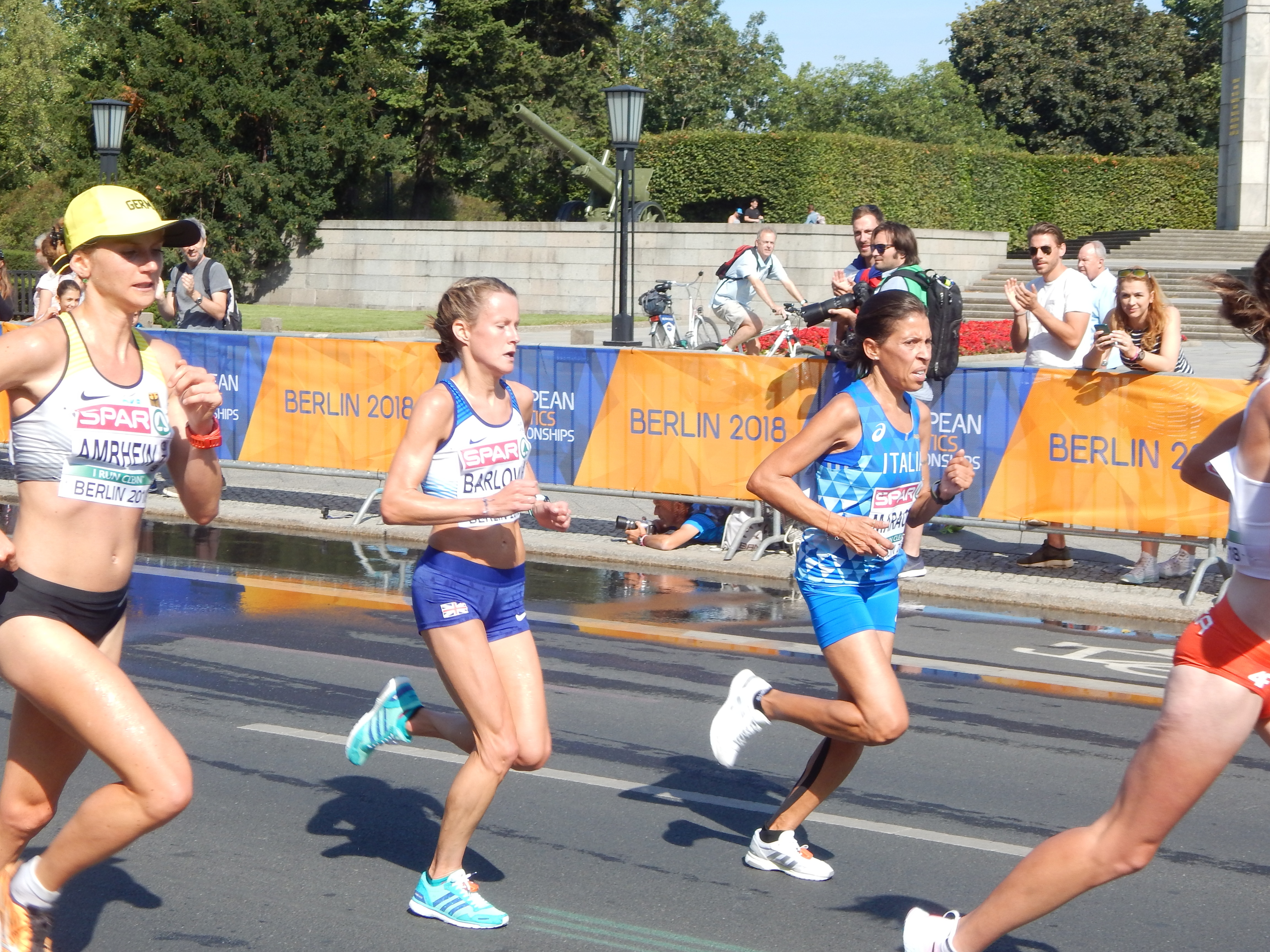 European Championships 2018 Marathon at Straße des 17. Juni